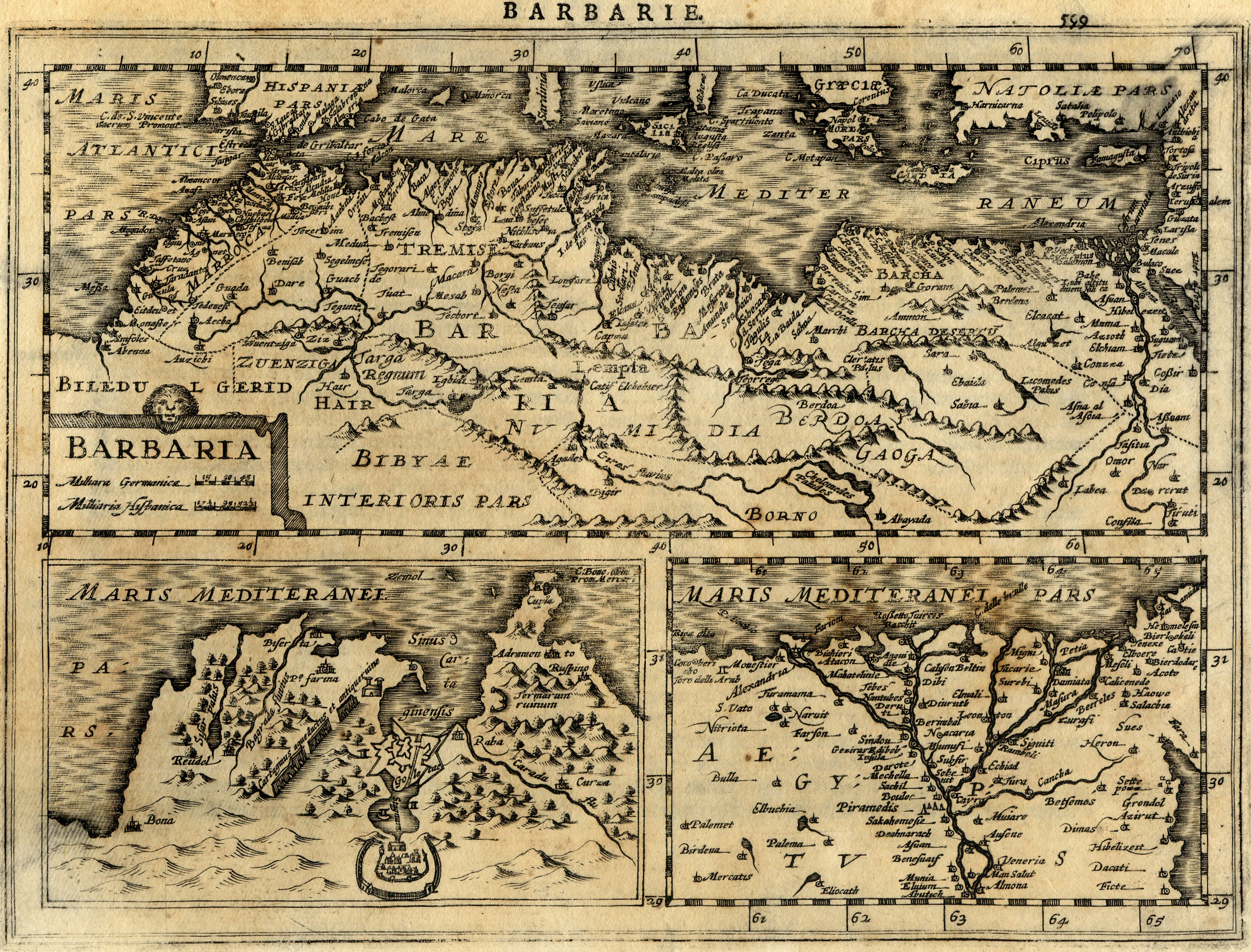 Map of Barbaria (Maghreb / Northern Africa / Morocco, Algeria, Tunisia, Libya) made by Gerhard / Gerardus Mercator. This map, coming from Atlas Minor of Mercator has been engraved by Jan Cloppenburgh in 1630 in Amsterdam.